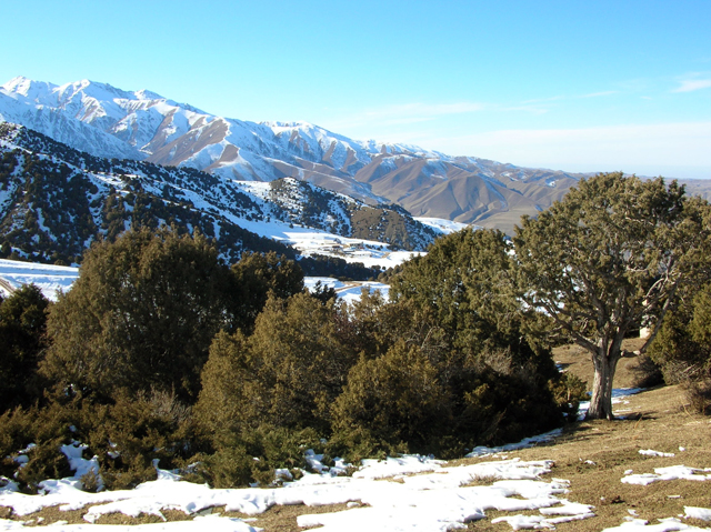 Kyrgyz Ala-Too